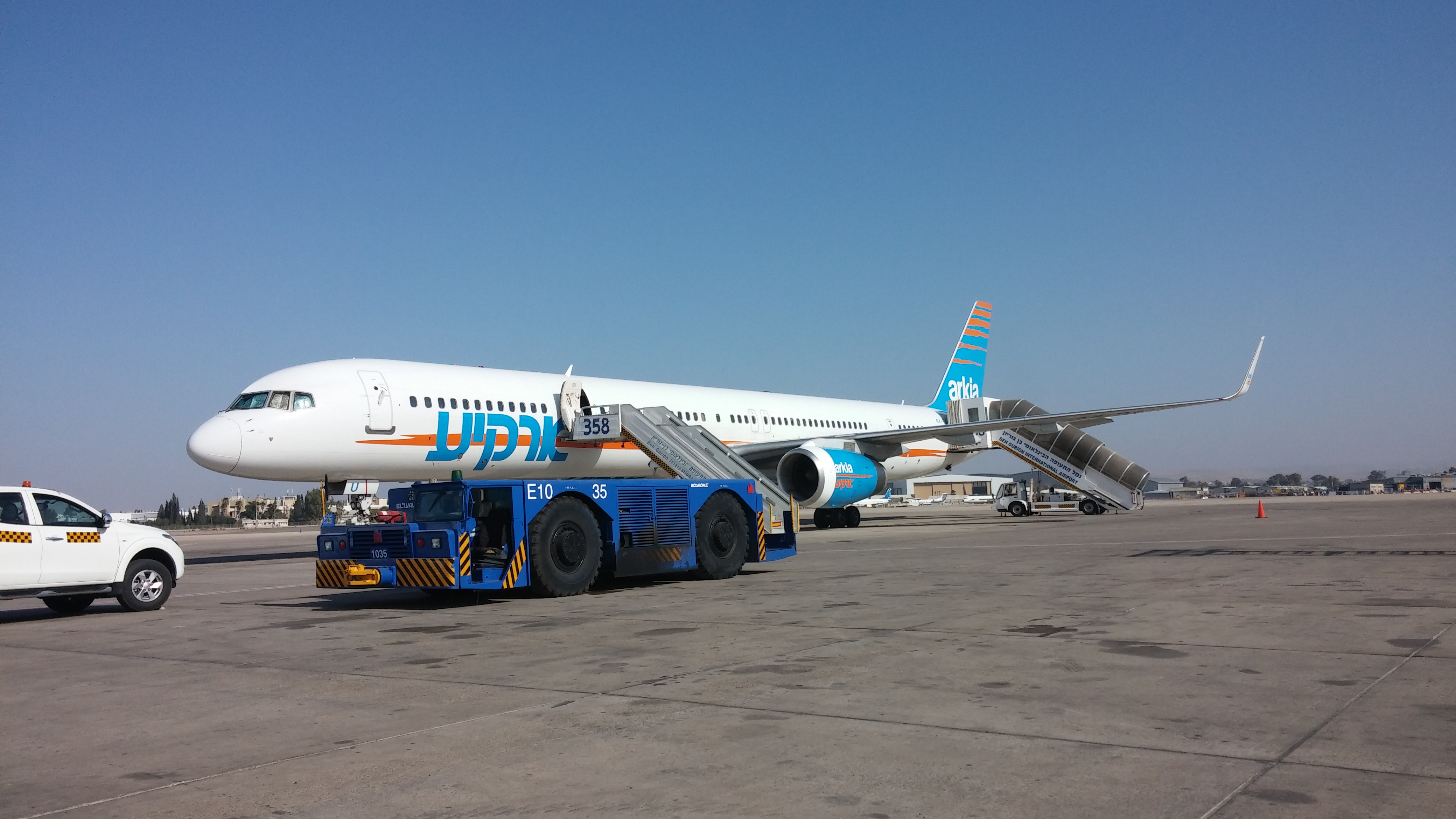 Arkia Emberar